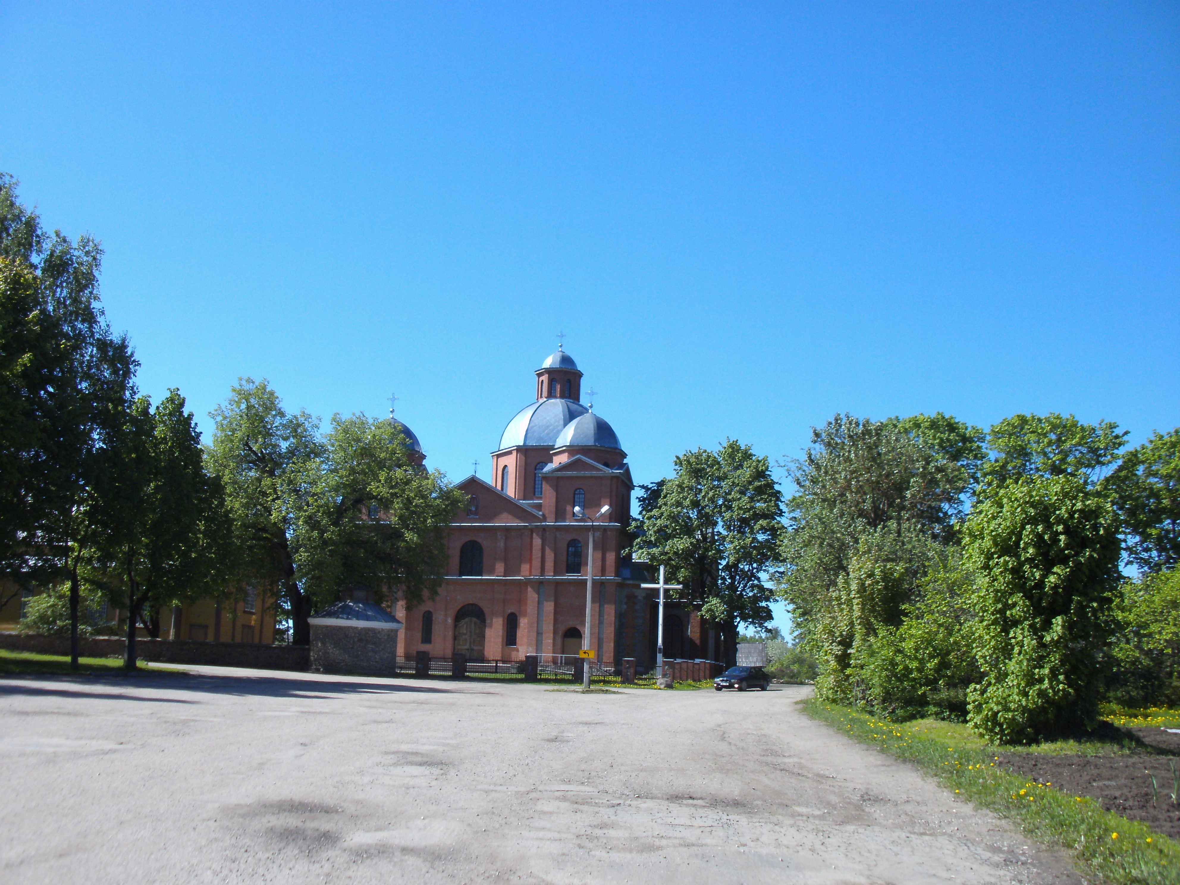 catholic church in Kārsava, Latvia